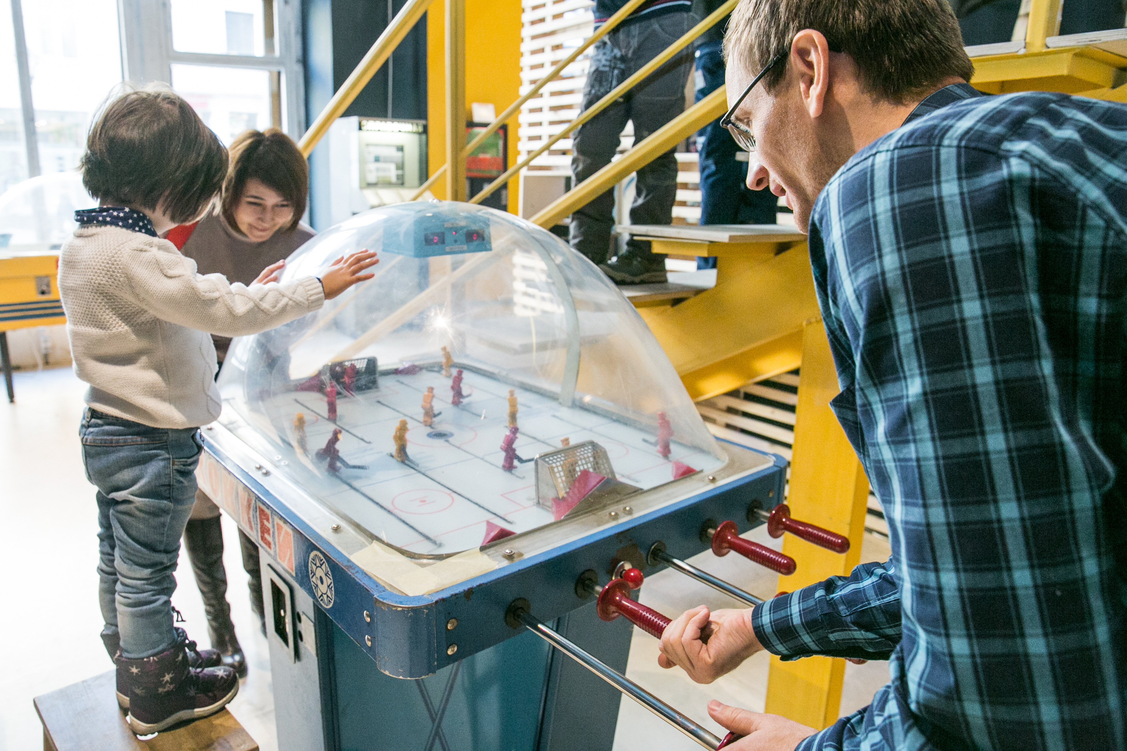 Посетители Музея советских игровых автоматов в Москве играют в настольный хоккей